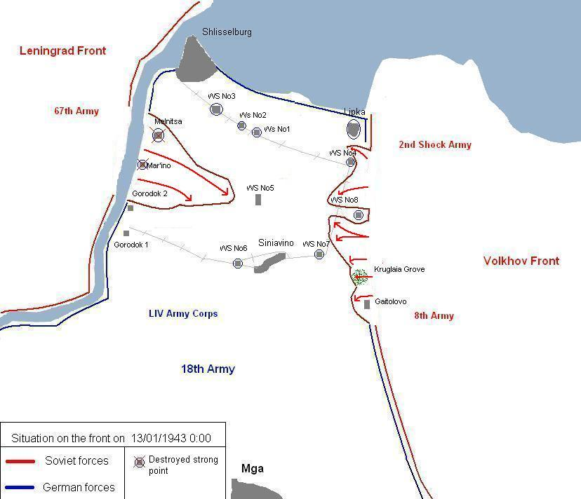 Situation Near Leningrad one day after start of "Operation Iskra" The information of troops positions and advance based on Glantz (2004) and Glantz (2009).